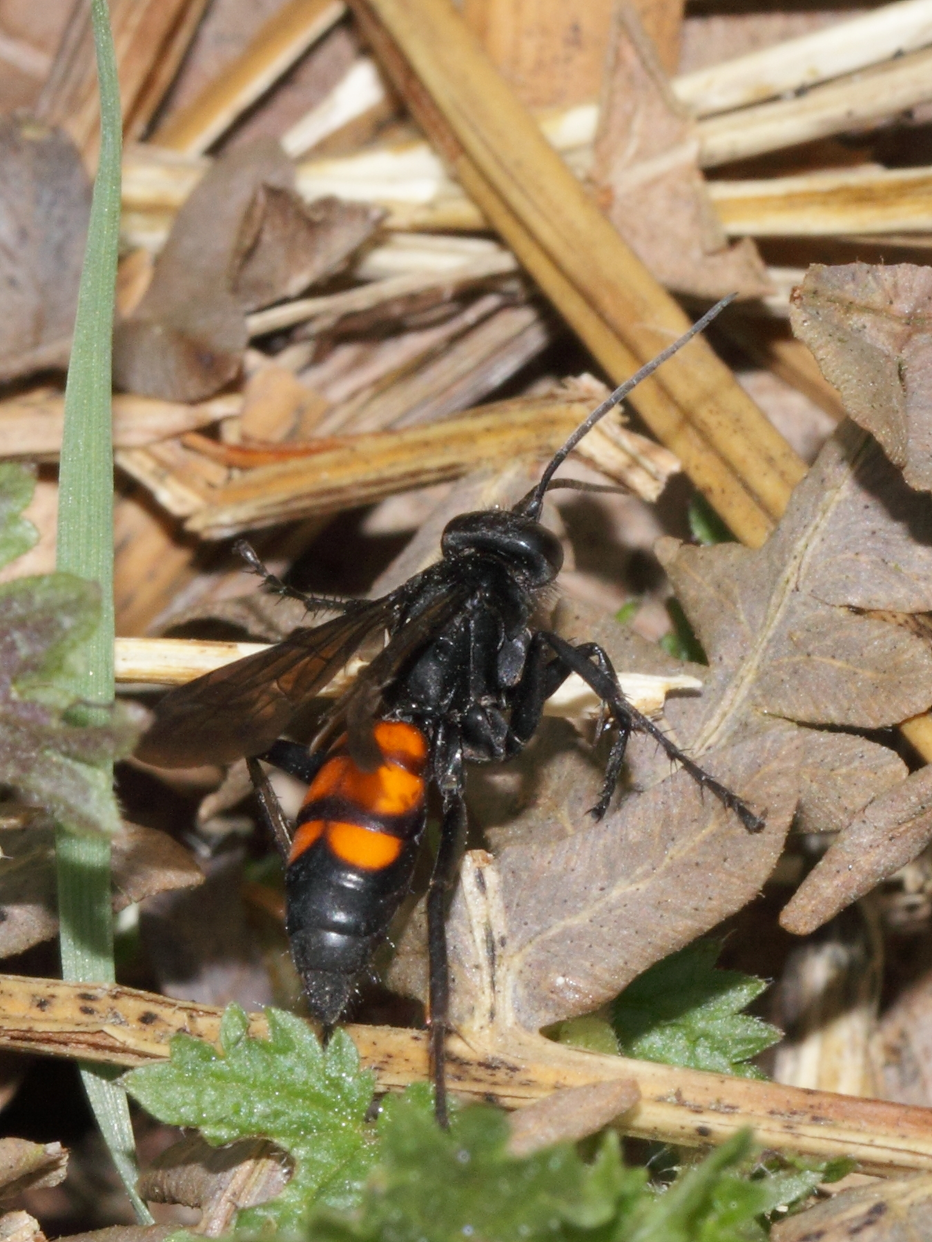 L: 9 -14 mm, (female, Weibchen) Phylum: Arthropoda Subphylum: Hexapoda Class: Insecta (insects, Insekten) Subclass: Pterygota Order: Hymenoptera (Hautflüglern) Suborder: Apocrita (Taillenwespen) Superfamily: Vespoidea Family: Pompilidae (spider wasps, Wegwespen) Subfamily: Pompilinae Tribus: Pompilini Genus: Anoplius Dufour, 1834 Anoplius viaticus LINNAEUS, 1758 (Black Banded Spider Wasp, Frühlings-Wegwespe) Germany, Brandenburg, vic. Königs-Wusterhausen: Dubrow, 01.05.2013 IMG_3360